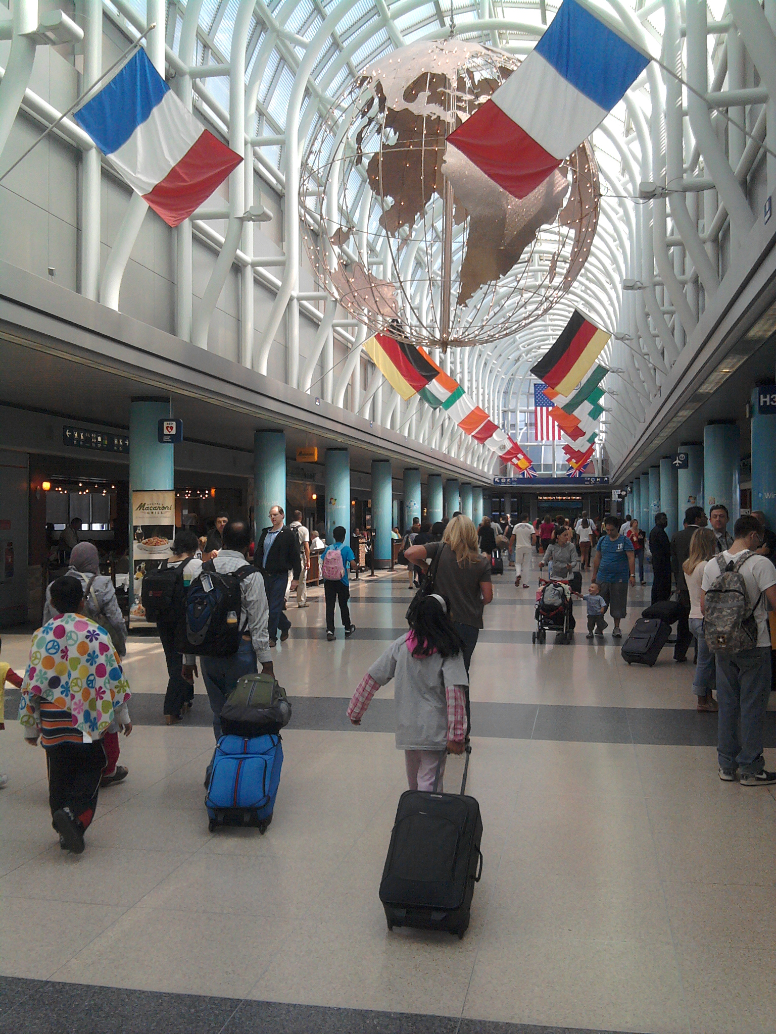 'O Hare Airport - Terminal 3 Main Hall